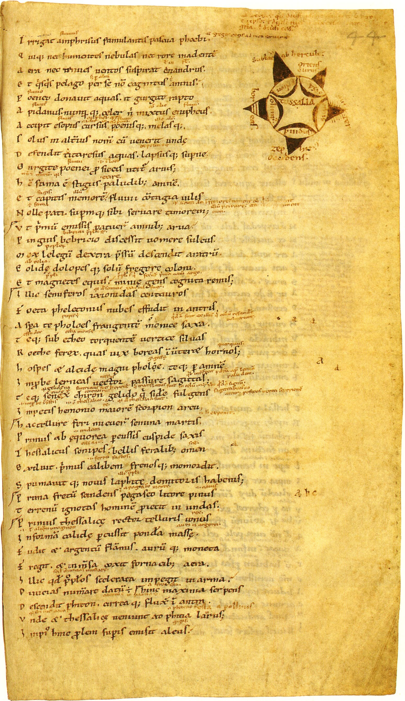 Lucan, Pharsalia, Book 6 verses 368-410, in ms. Biblioteca Apostolica Vaticana, Vaticanus Palatinus lat. 1683, fol. 44r.